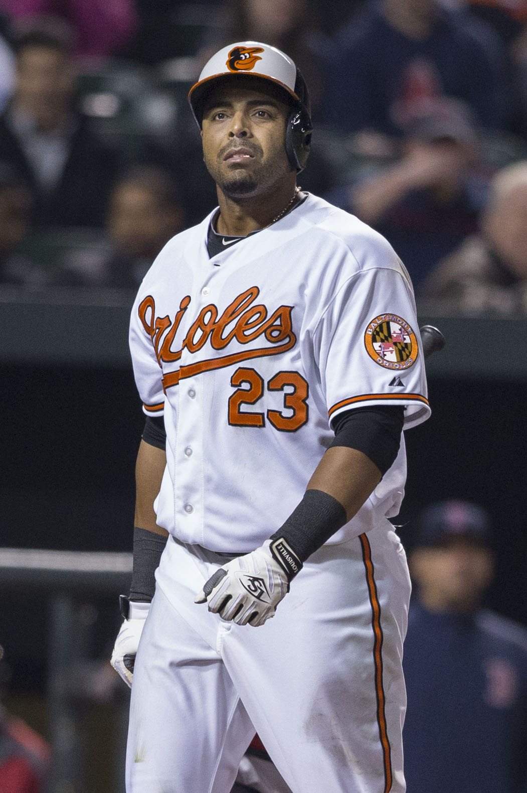 Baltimore Orioles outfielder Nelson Cruz in Baltimore on April 3, 2014.